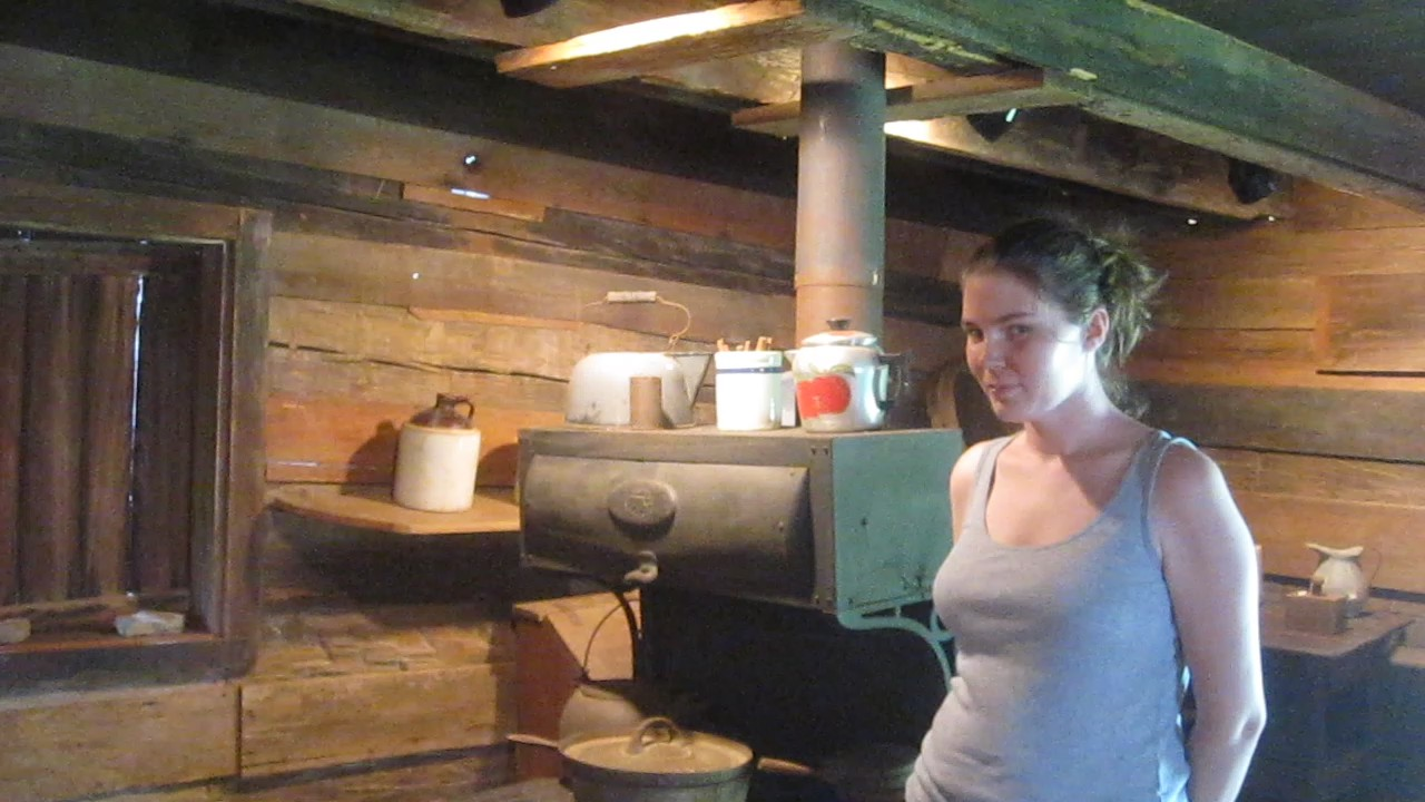 Guide in Germantown Museum, Minden, LA